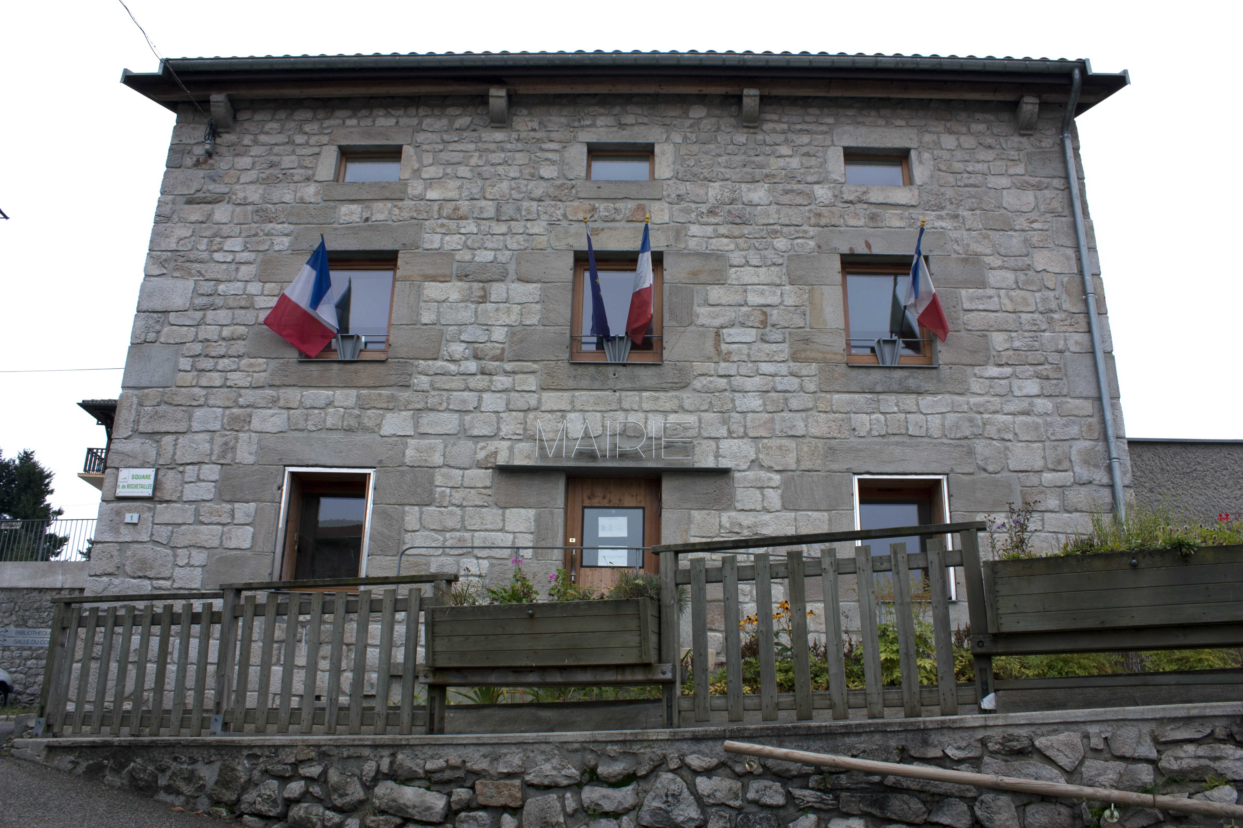 Townhall